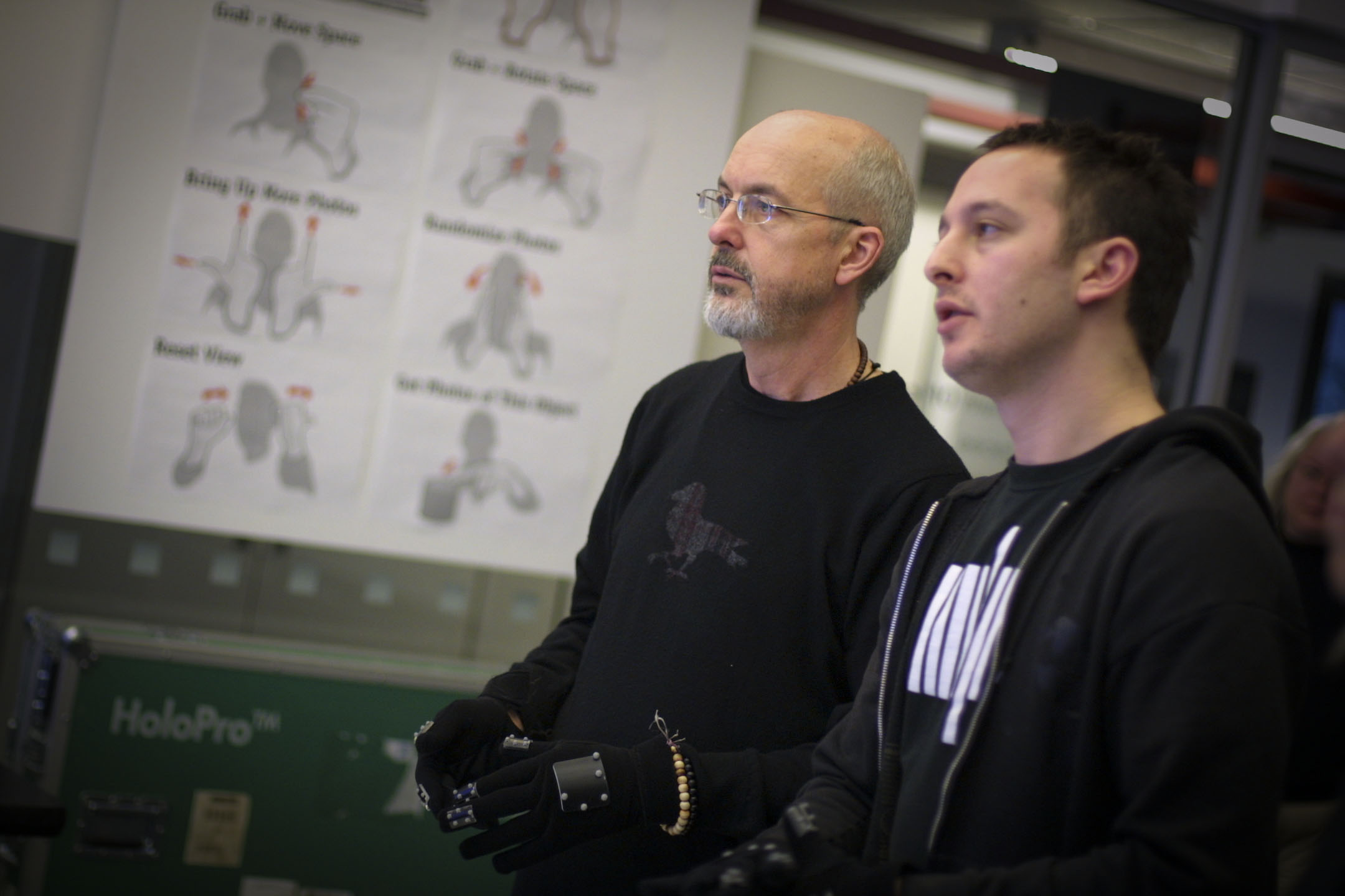 Bill and Jamie photo by: Jean-Baptiste LABRUNE